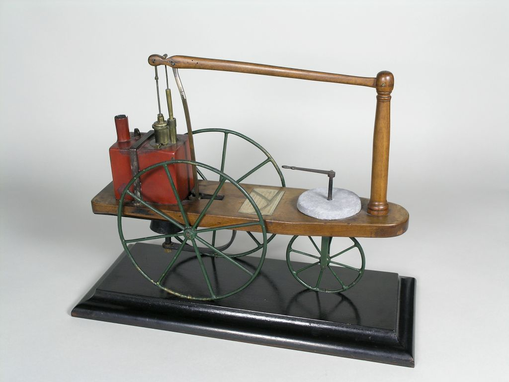 William Murdock's miniature steam road locomotive. Wooden rectangular base. Attached to which is a model made from a wooden plate which rounds at one end. There are two large and one small green wheel with two rods in an 'l' shape. This is attached by copper alloy rods to a piston and red block. There is also a grey disc and a metal plaque is attached. Editing Undertaken: Levels, Unsharp Mask